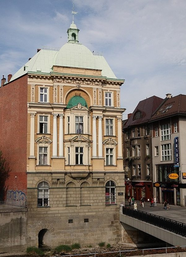 Burda's House in Bielsko-Biała